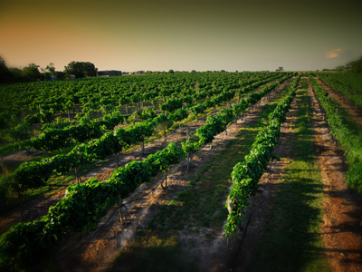 Image of the vineyard at Messina Hof